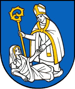 Coat of arms of Nováky, Slovakia